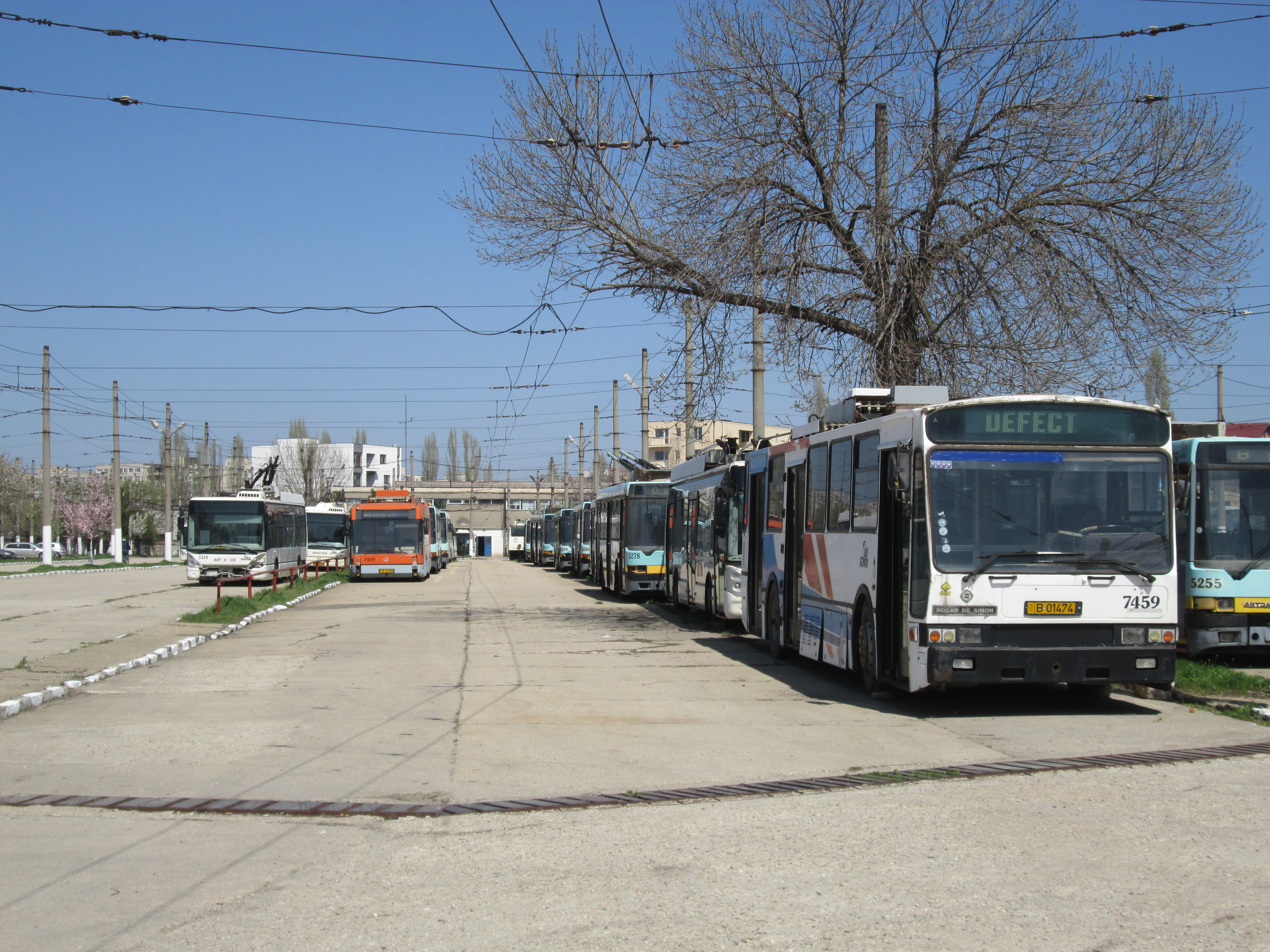 Trolleybus depot Bujoreni, owned by RATB in the Drumul Taberei neighborhood, Bucharest, Romania.